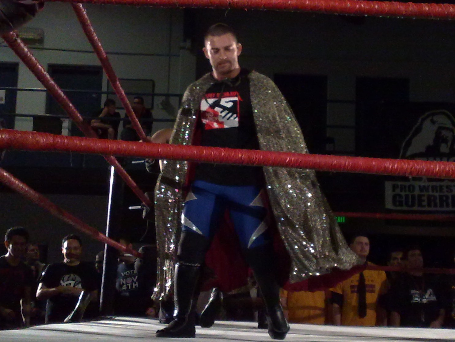 Davey Richards mocking El Generico by wearing his cape at Pro Wrestling Guerrilla's Battle Of Los Angeles 2008 Night 2 show in November 2008.